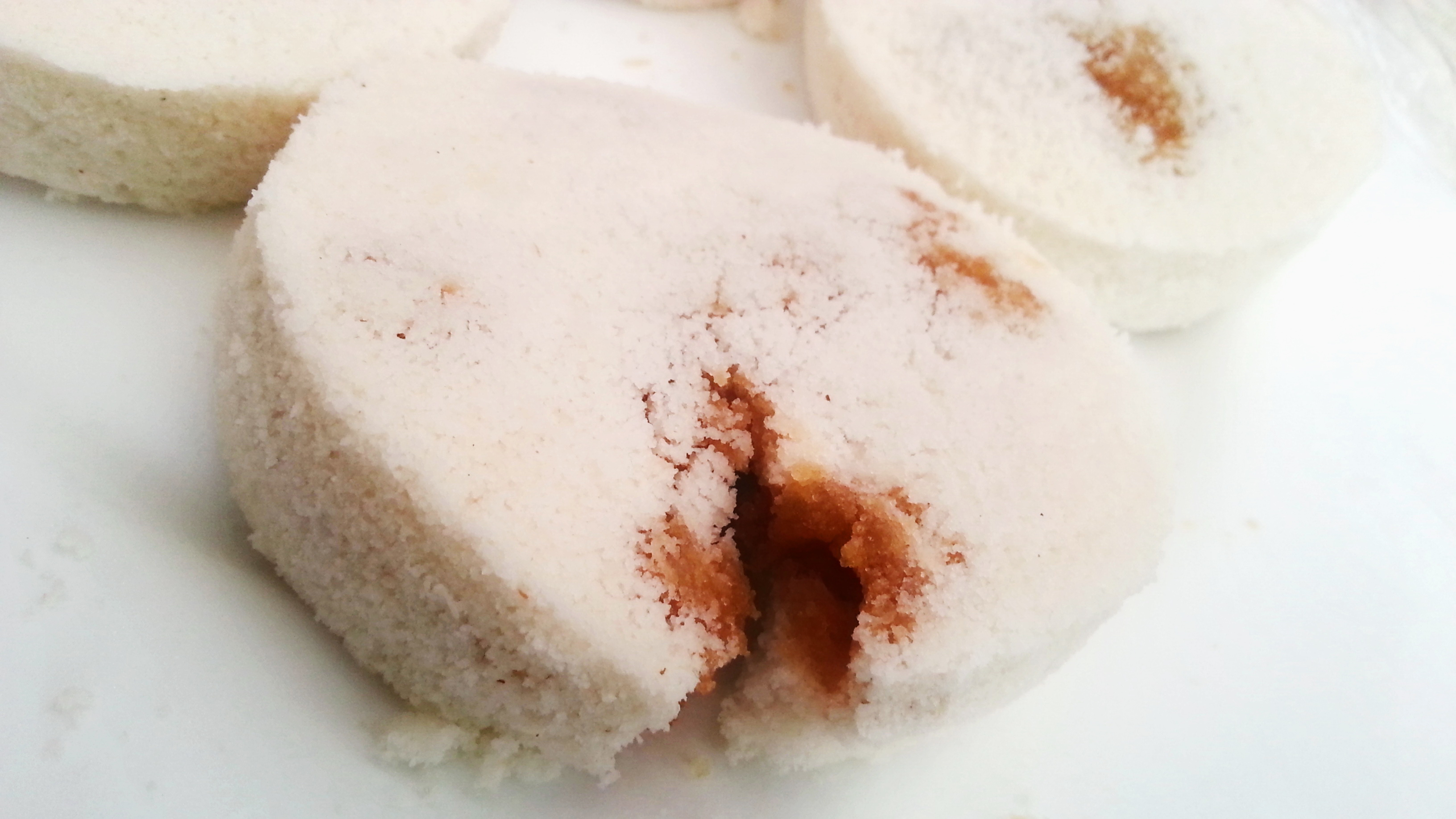 Bangladeshi style Bhapa Pitha, a rice cake sweetened with molasses.